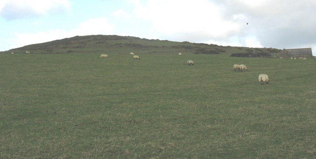 Castell Odo - an Iron Age Fort, near to Rhoshirwaun, Gwynedd, Great Britain. Castell Odo a two ring fort is sited on Mynydd Ystum hill.